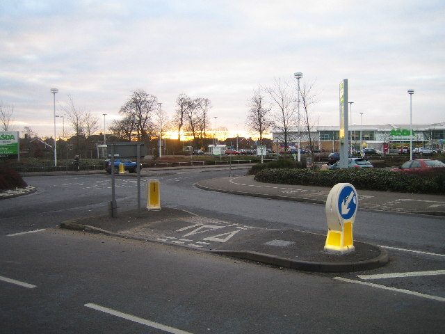 Supermarket at North Hykeham. Taken from Newark Road